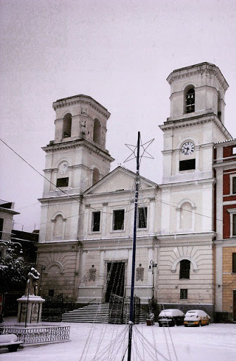 Facciata del Santuario di Santa Filomena, Mugnano del Cardinale (Avellino)